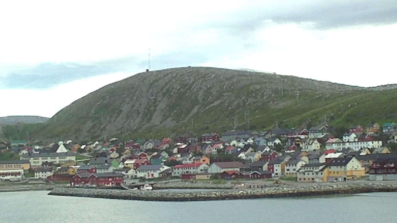 Seaside view. Of Kjøllefjord village, Finnmark, Norway., Kjøllefjord.